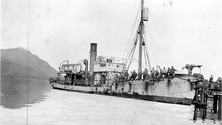 On verso of image: Ship Kodiak . In Folder 135 Subjects (LCSH): Kodiak (Ship); Whaling ships--Alaska; Whaling--Alaska; Whalers (Persons)--Alaska